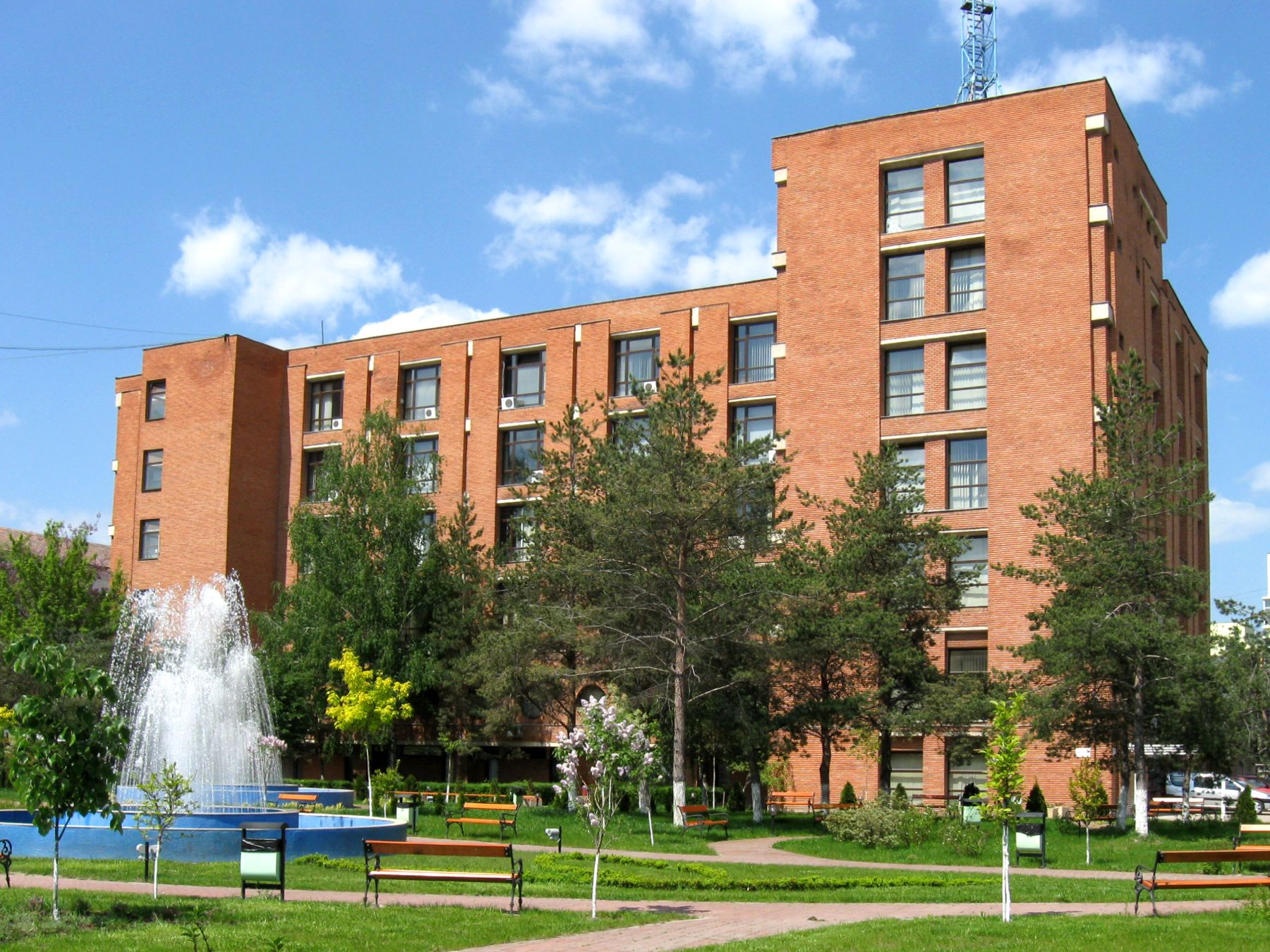 The "Orologerie" (Horology) building of the Faculty of Mechanical Engineering of Timisoara.